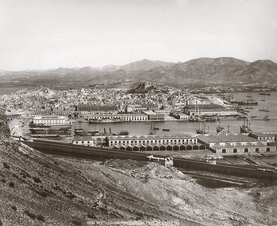 The Arsenal of Cartagena in 1900, with the city in the background.